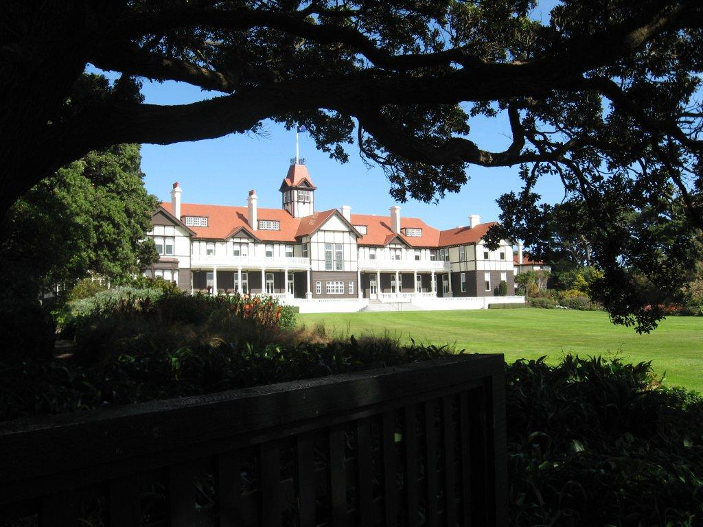 Image of Government House Wellington, from the bottom lawn.